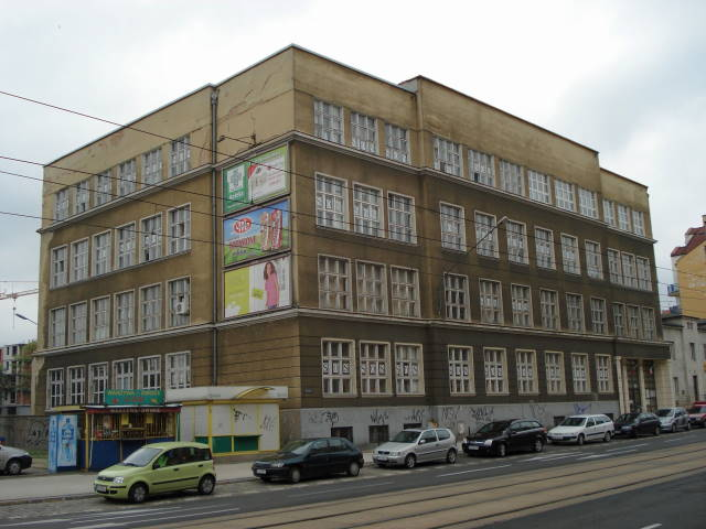 Music School in Poznań, Głogowska street